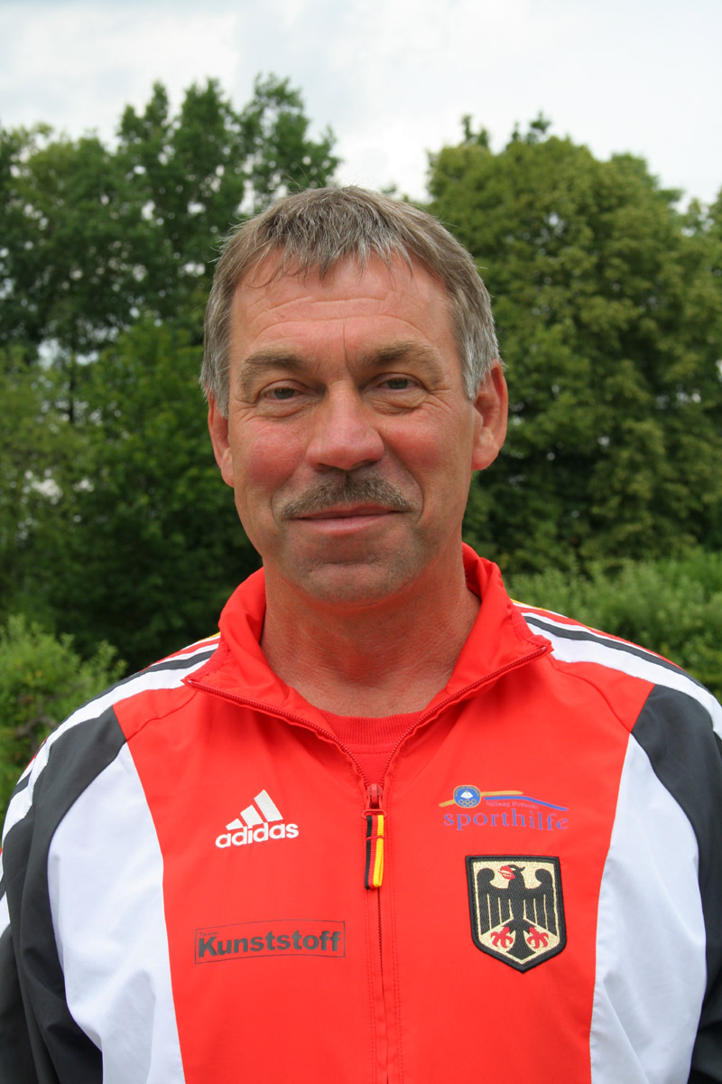 Reiner Kiessler German Canoe Sprint Head Coach